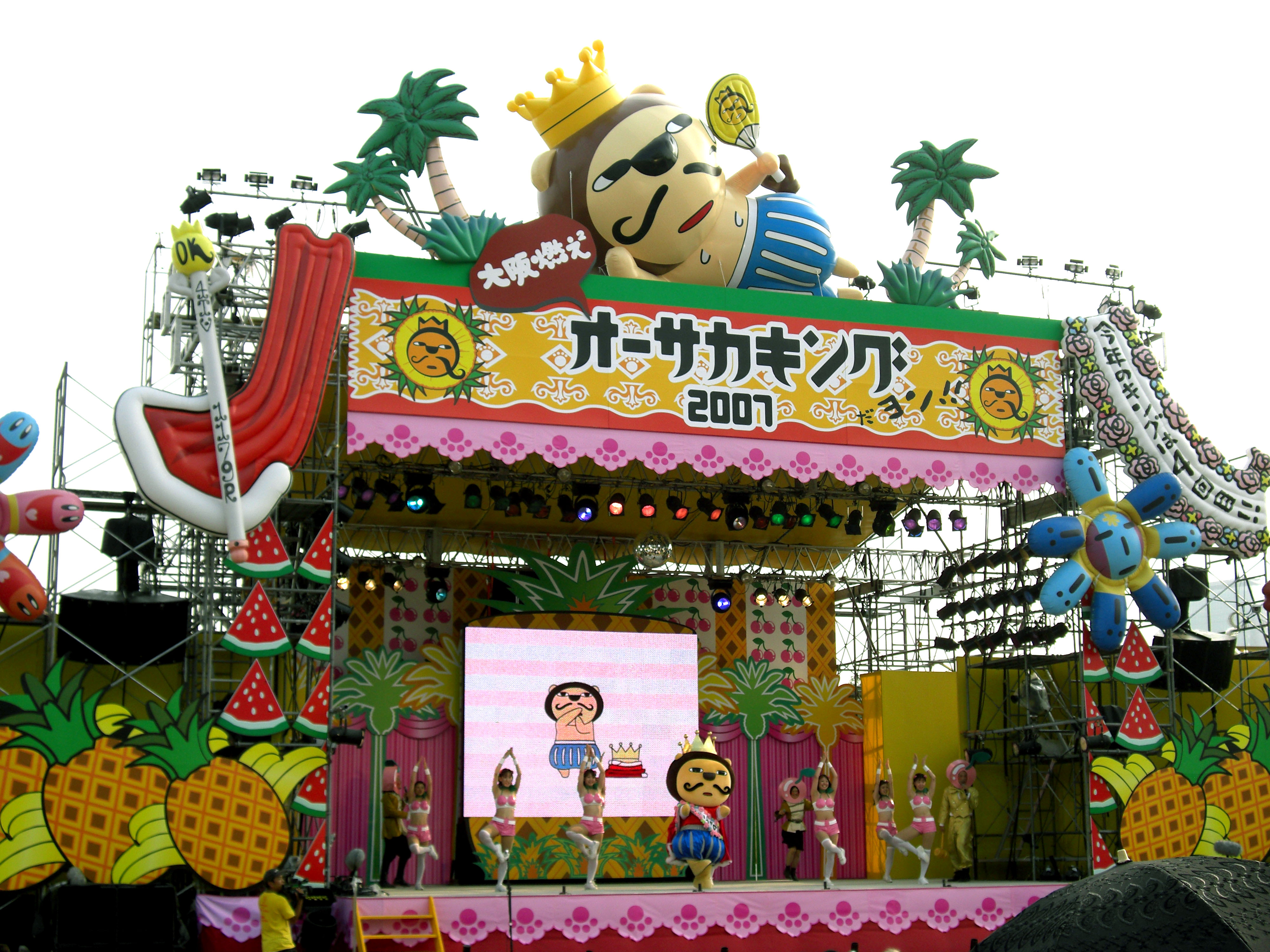 Osaka King,Osakajo Chuo-ku Osaka-City Osaka Japan.